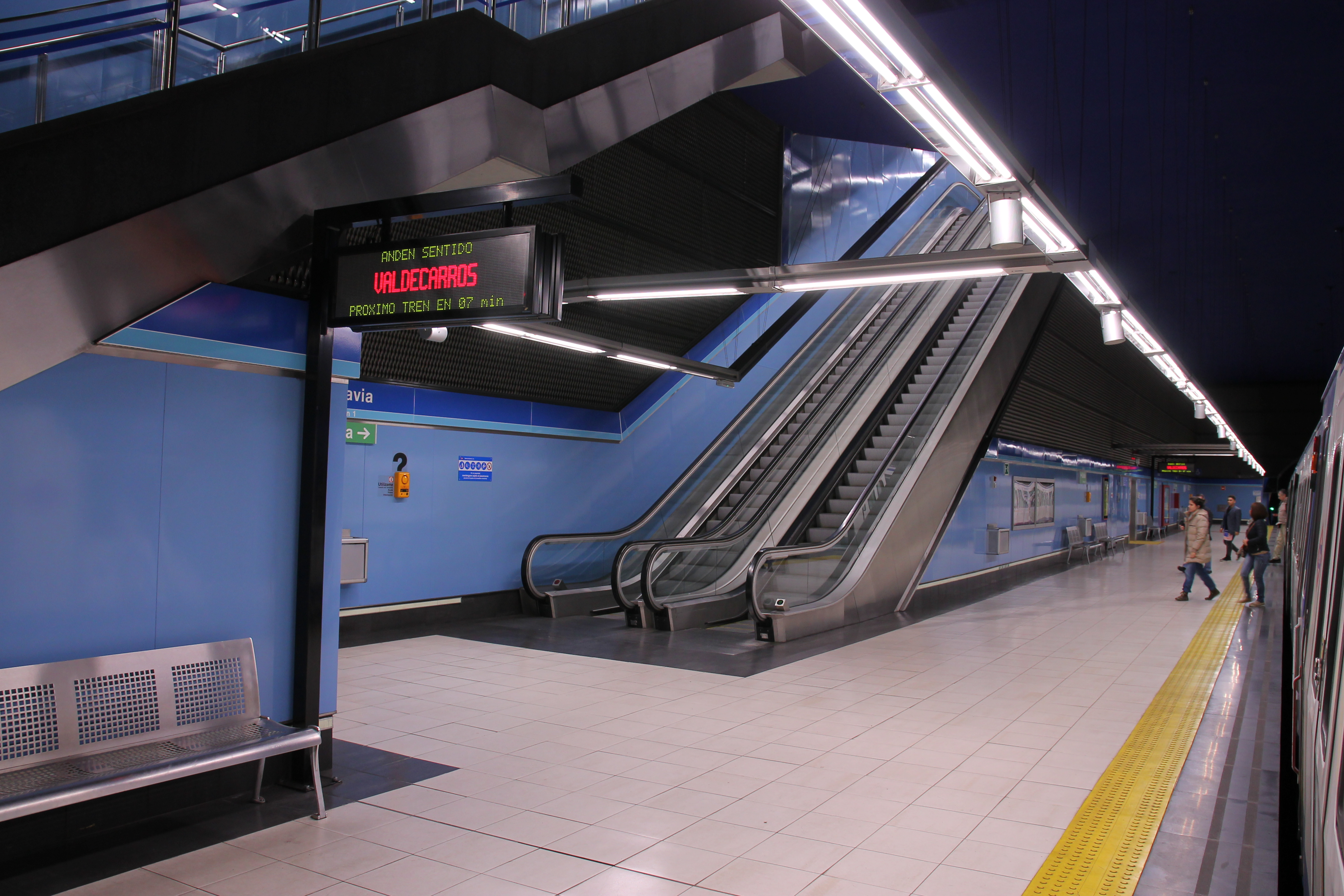 La Gavia station. Madrid Metro.